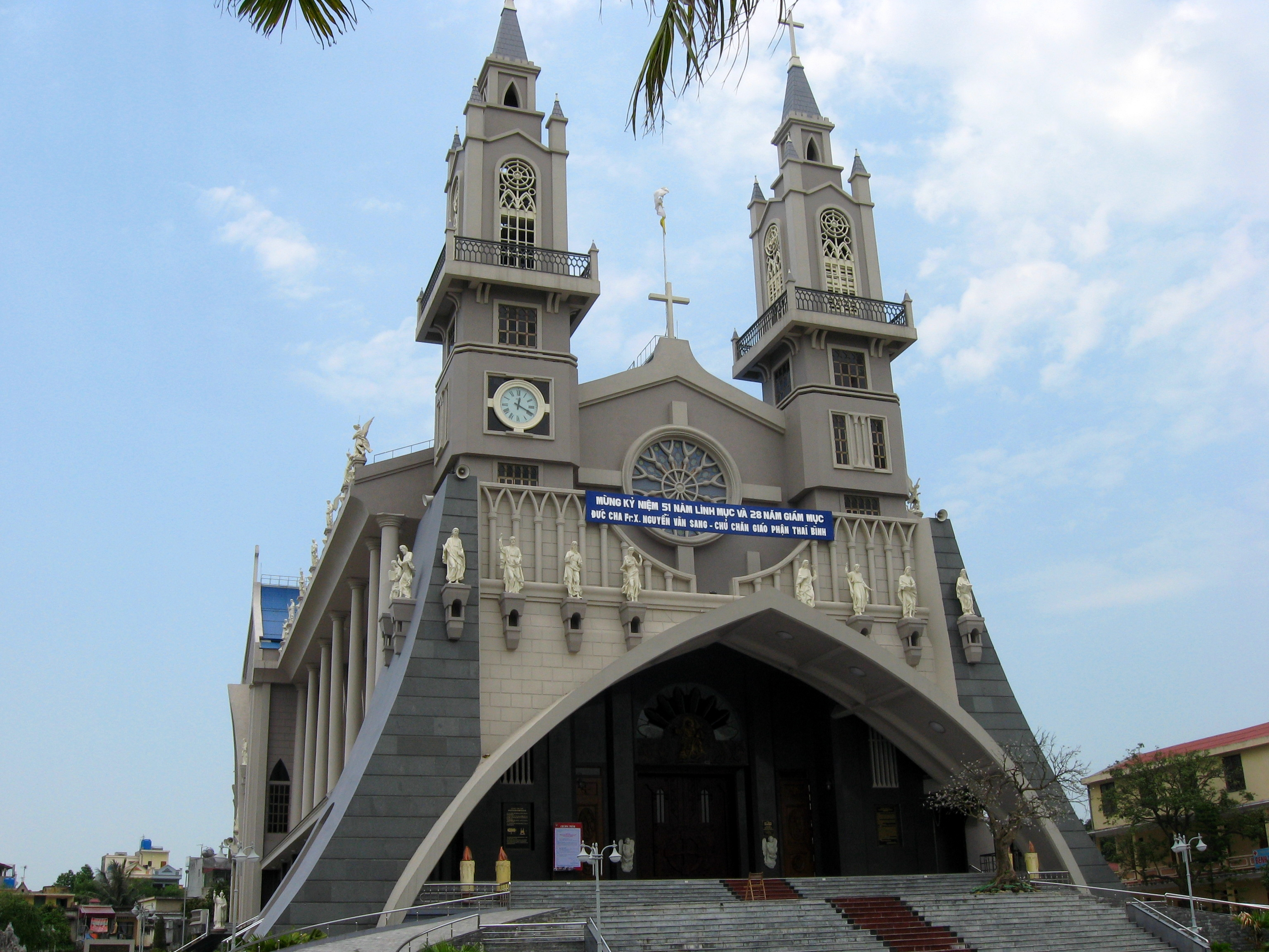 Thai Binh Cathedral